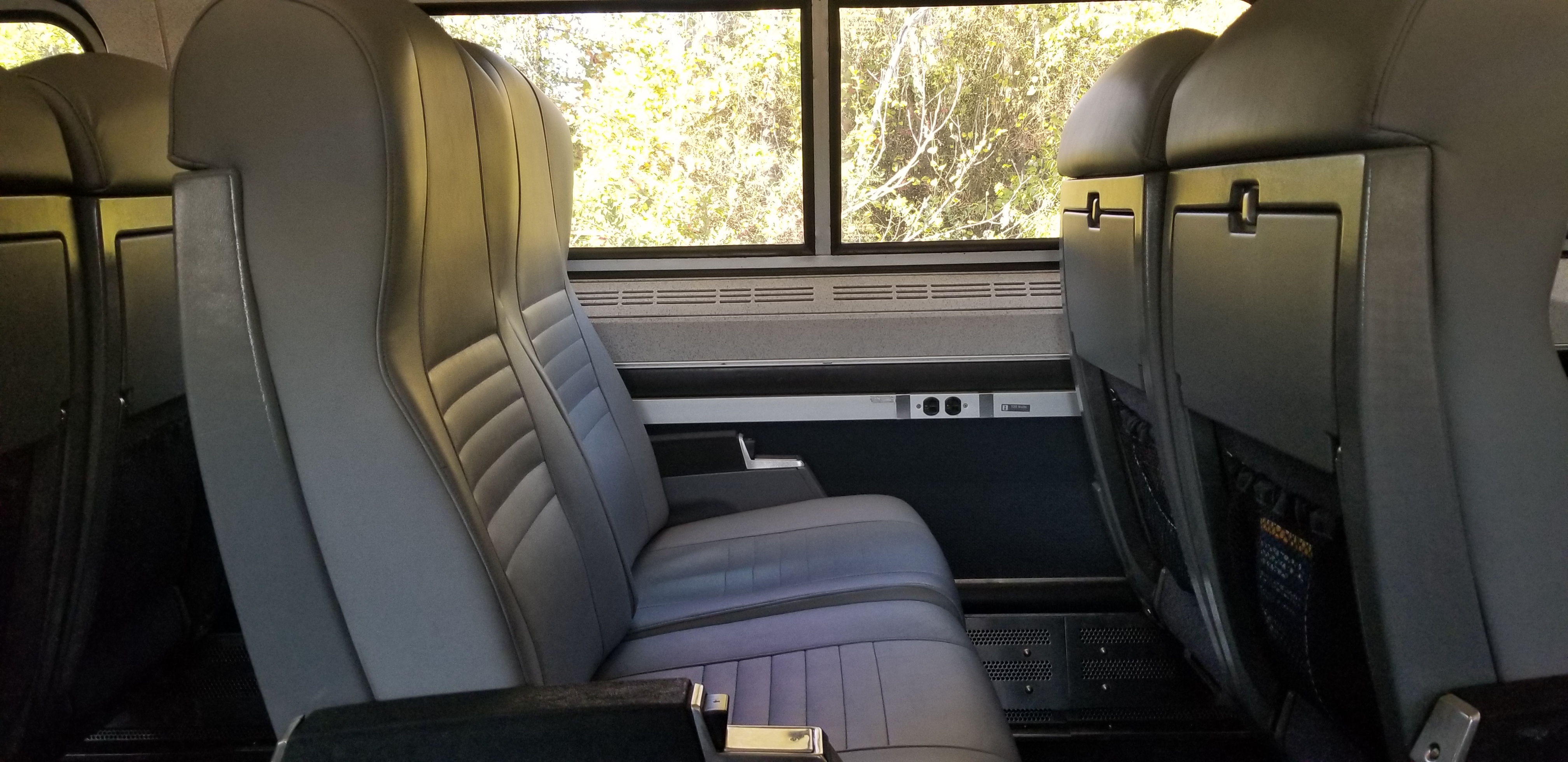 Coach seats of a refurbished Amfleet I car